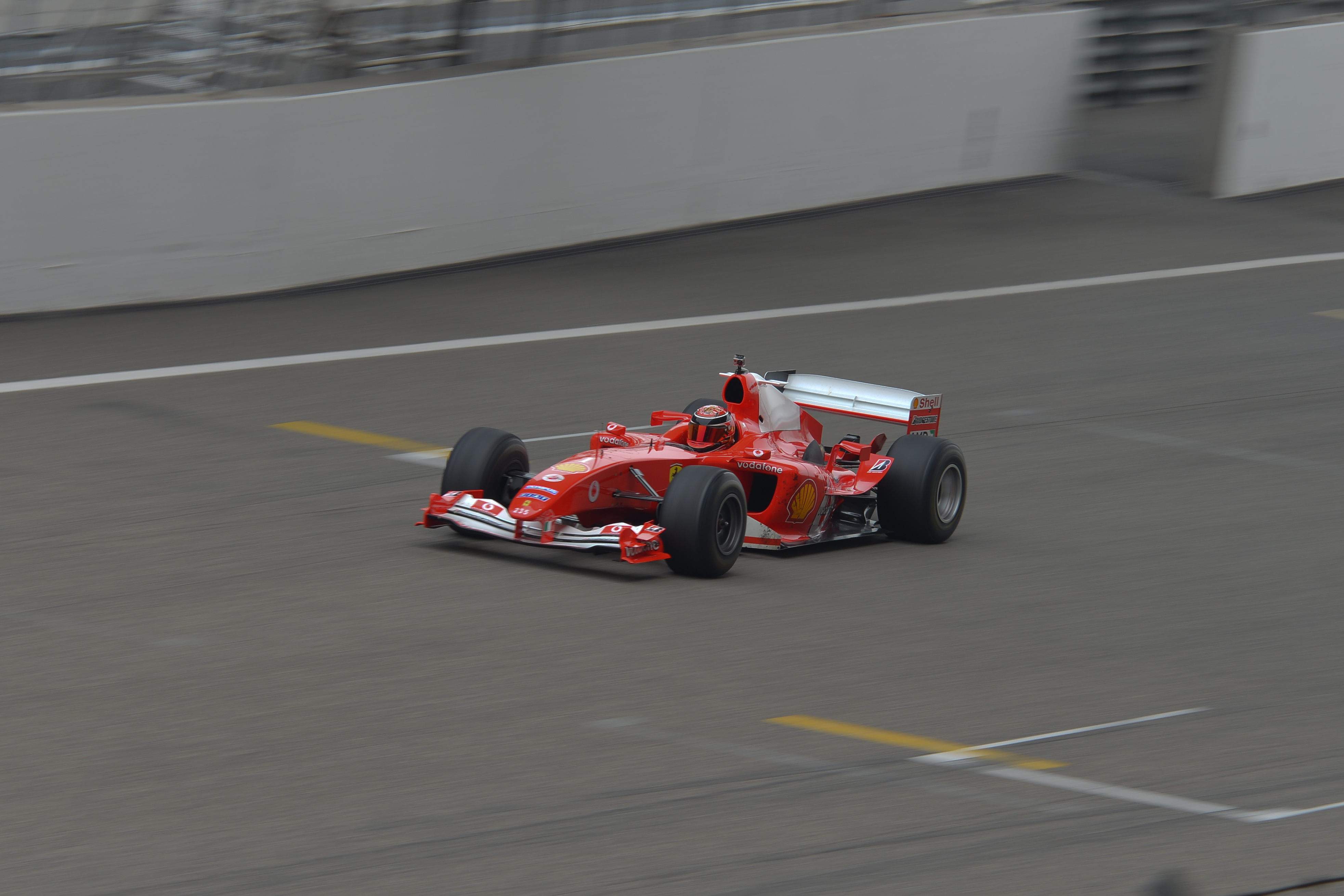 Ferrari F2004 being presented at Ferrari Racing Day, Shanghai, 2014